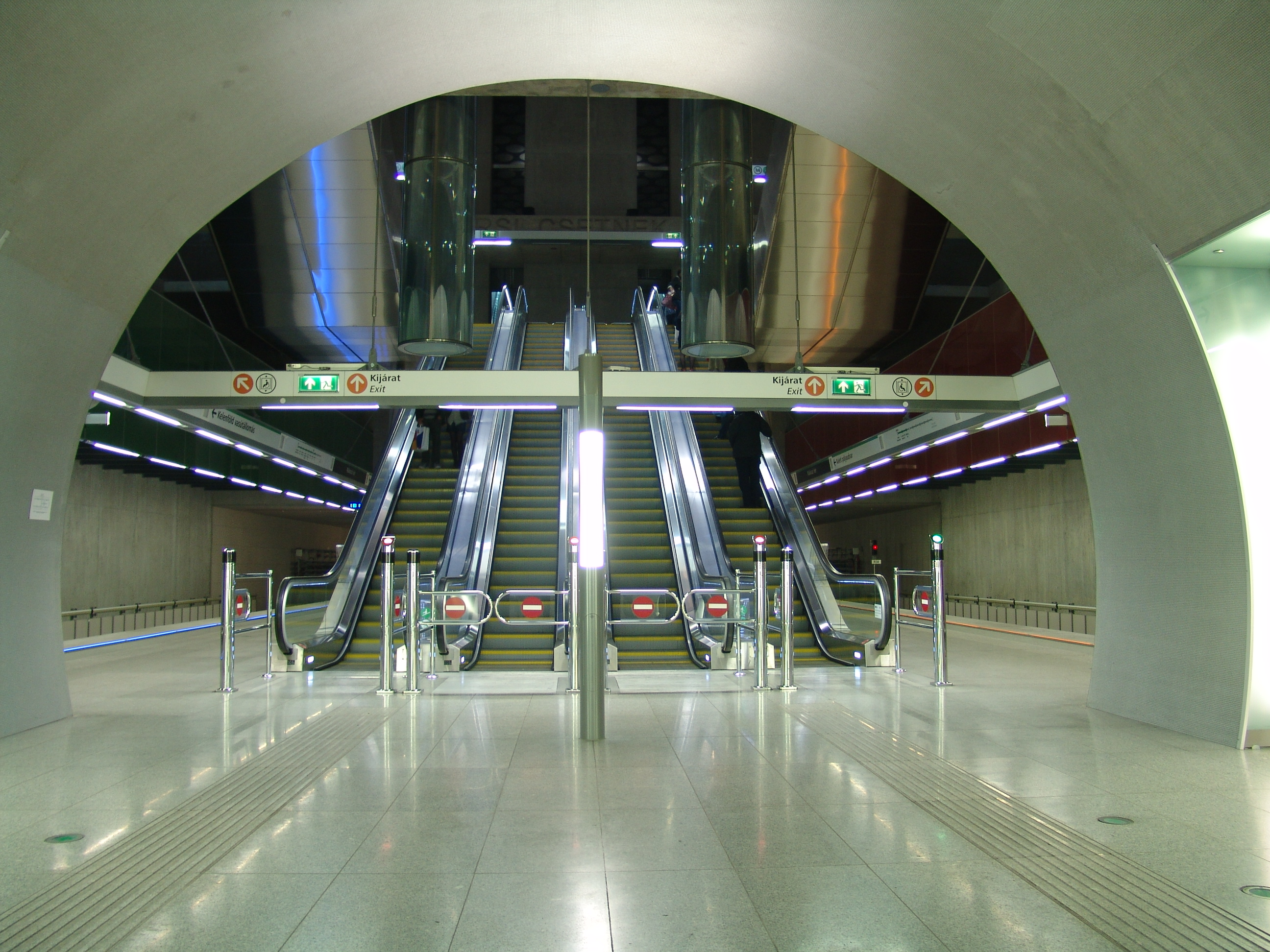 Line 4 (Budapest Metro), Rákóczi tér station